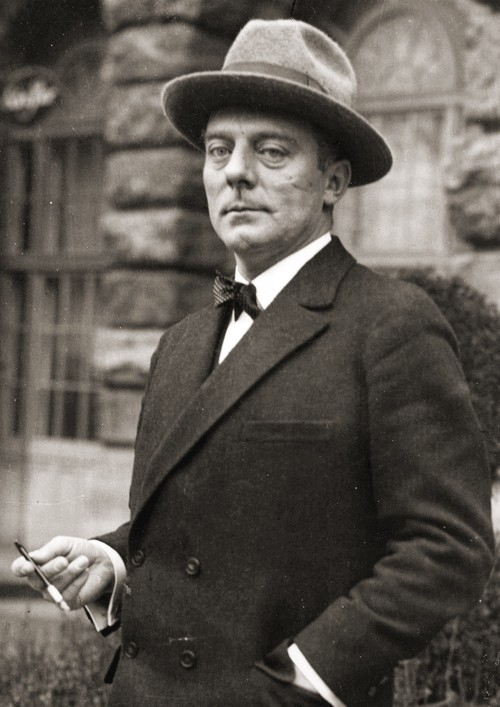 Ulrich Rauscher (1884-1930) Ambassador of Germany to Poland 1922-1930